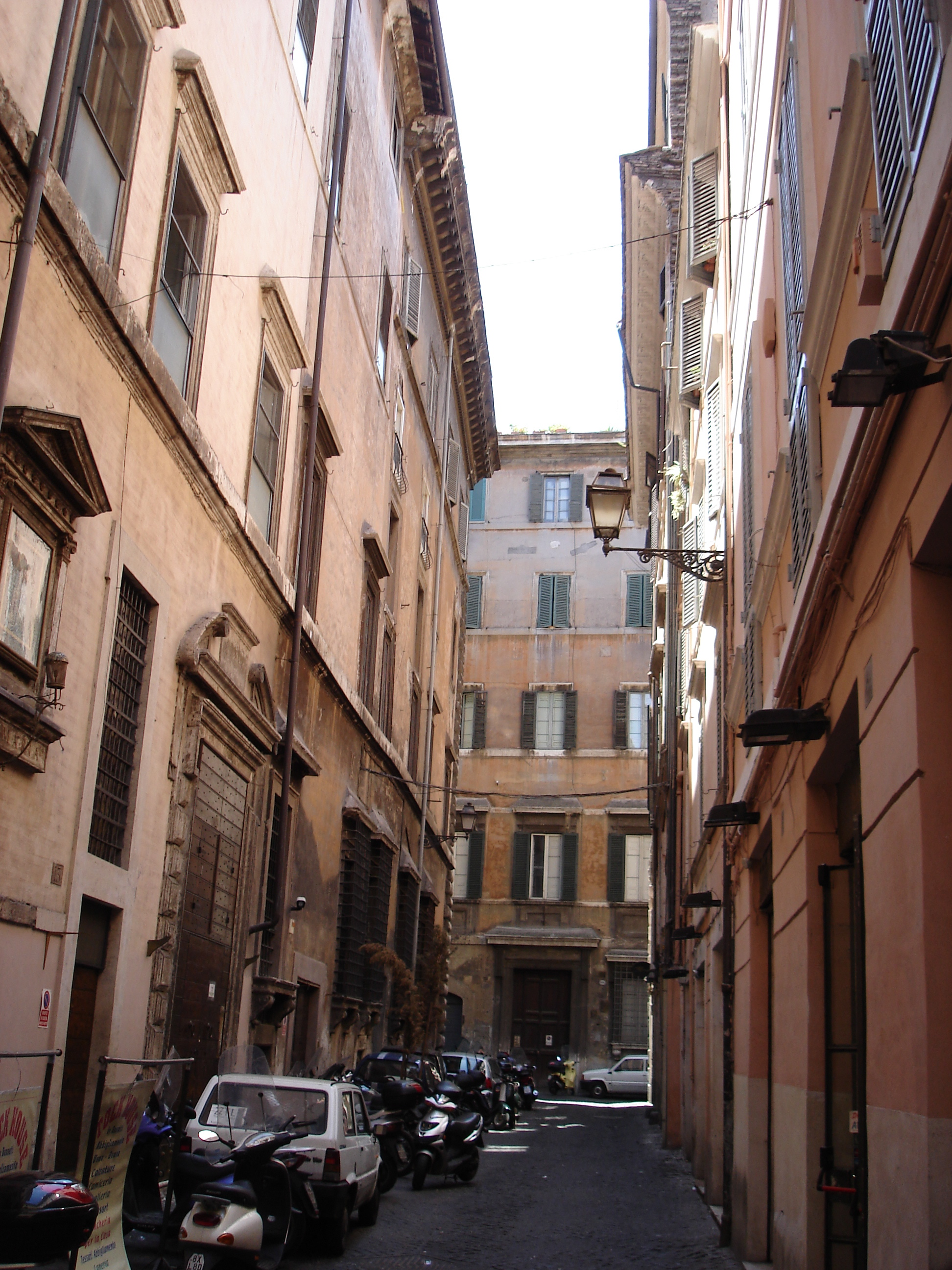 Rome in July.